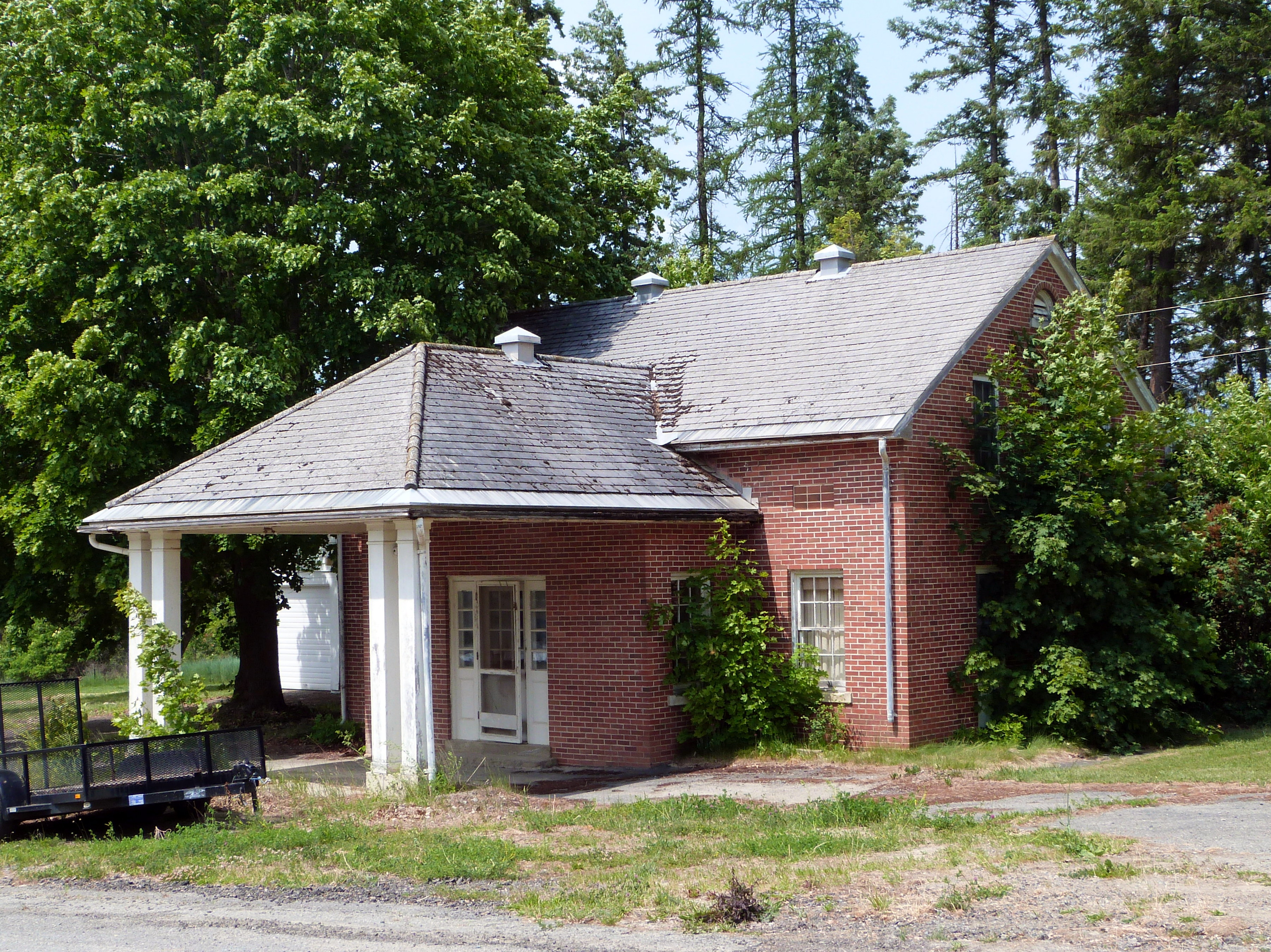 The historic U.S. Inspection Station on Idaho State Highway 1 in Porthill, Idaho, United States, (near Creston, British Columbia is listed on the U.S. National Register of Historic Places.